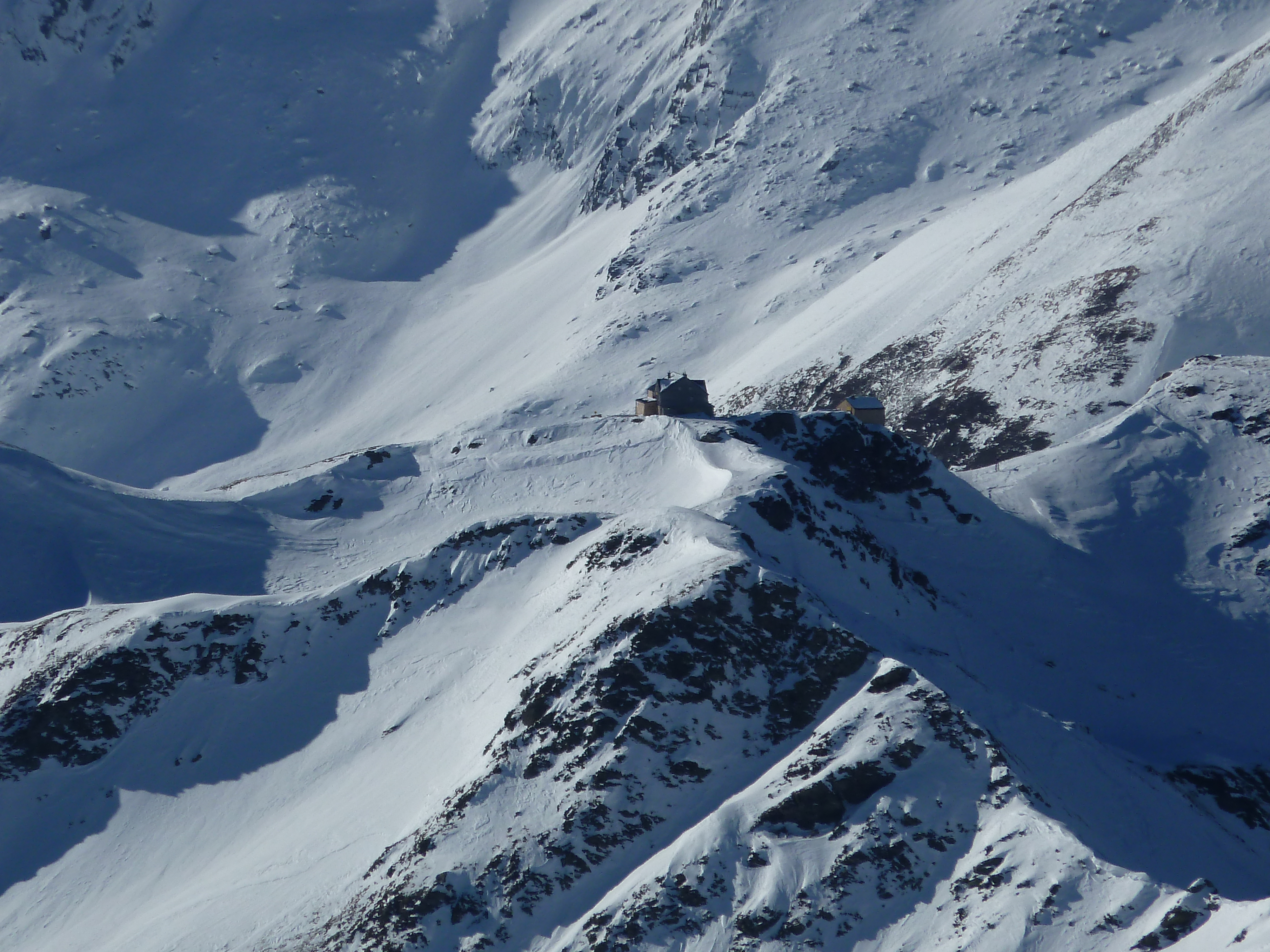 The alpine hut "Hagener Hütte" at the Mallnitzer Tauern in a view from the Kreuzkogel in the skiing area Sportgastein. The Mallnitzer Tauern is one of the ancient passes in the mountains of the Hohe Tauern. Sportgastein is an alpine skiing area in the Gastein valley in Salzburg (state). From the Nassfeld valley which is the name of the southern end of the Gastein valley the gondola lift Goldbergbahn leads in two sections up to the Kreuzkogel (2686 m), the starting point of several downhill skiing slopes. On clear days there is a spectacular sight over the Gastein valley and the surrounding mountains.